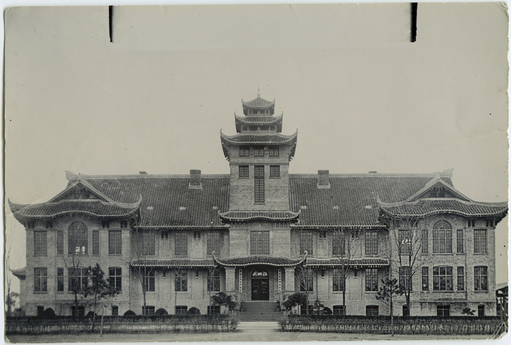 University founded by Omar Kilborn, Vandeman Hall